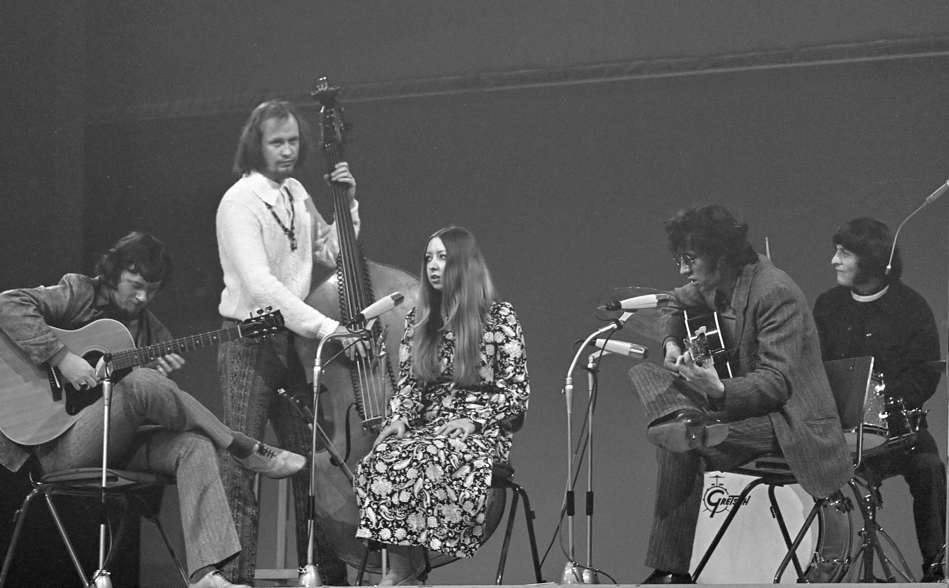 Pentangle in rehearsal for the Grand Gala du Disque in the RAI Congress Hall, Amsterdam on 6 March 1969